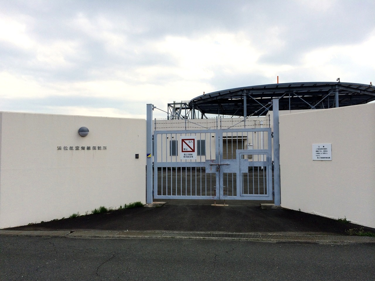 Hamamatsu Distance Measuring Equipment (DME)